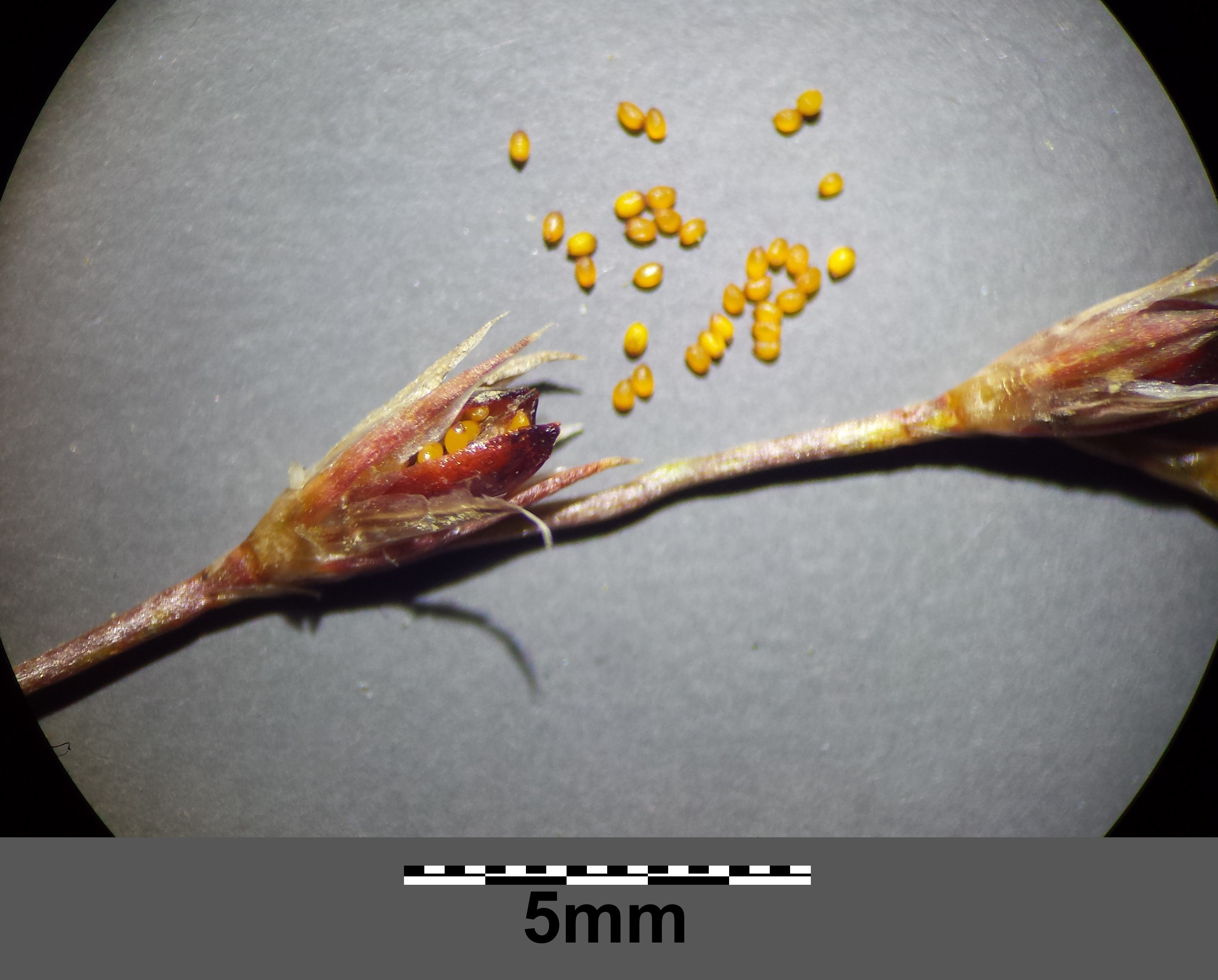 Fruits with seeds Taxonym: Juncus bufonius ss Fischer et al. EfÖLS 2008 ISBN 978-3-85474-187-9 Location: near Komau, district Freistadt, Upper Austria - ca. 875 m a.s.l. Habitat: wet way